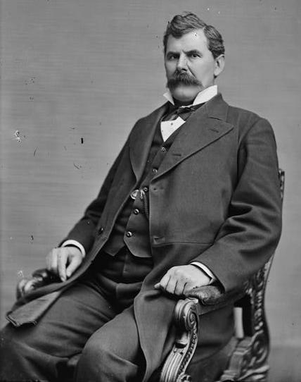 Luttrell, Hon. John King, Rep of California.